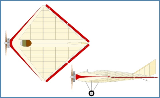 Canova_PC140